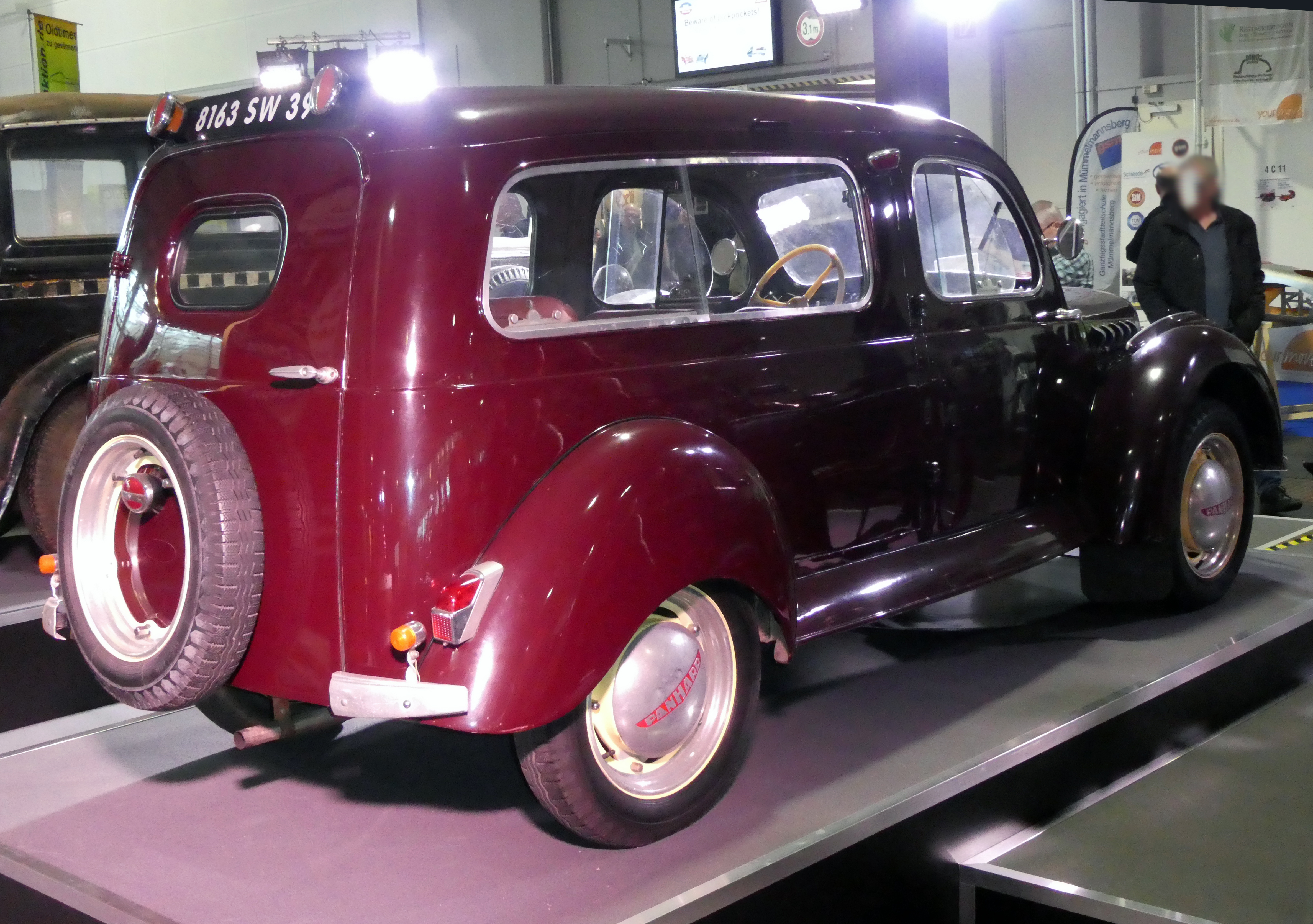 Panhard Dyna X 120 Canadienne at the 2020 Bremen Classic Car Show.